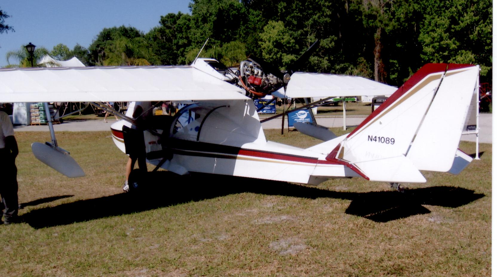 Progressive Aerodyne SeaRey light amphibian aircraft at Sun n' Fun, Lakeland, Florida